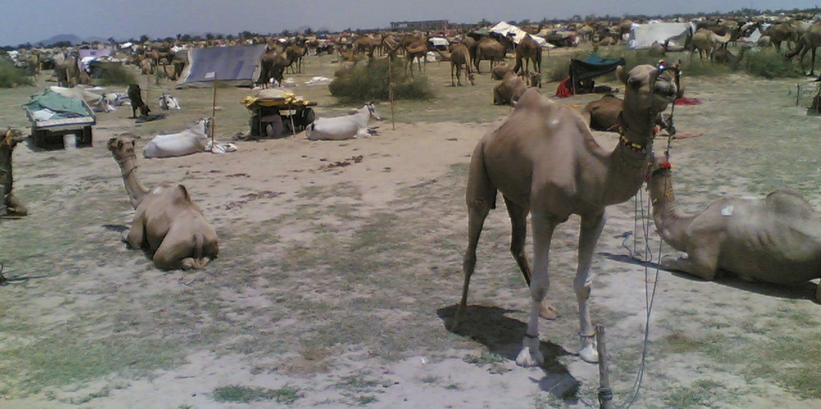 haniman fair pabolav